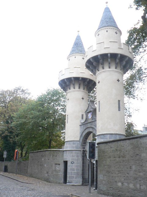 Aberdeen: ornateness giving false expectation This gateway cries out, "Come in and investigate!" We did – and found ourselves, disappointingly, among unremarkable 20th-century student accommodation.